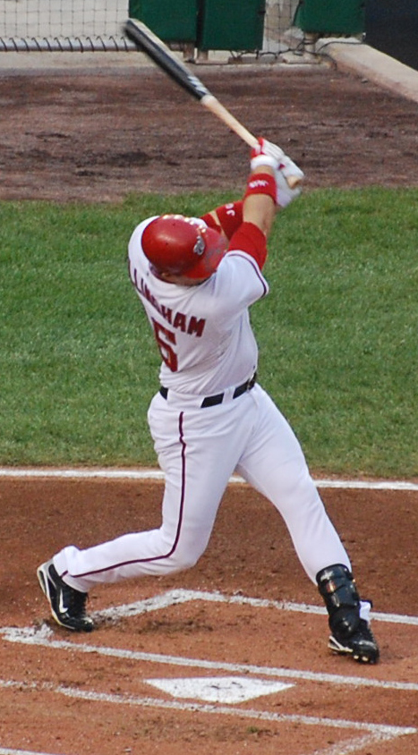 Washington Nationals outfielder Josh Willingham at Nationals Park – August 8, 2009.